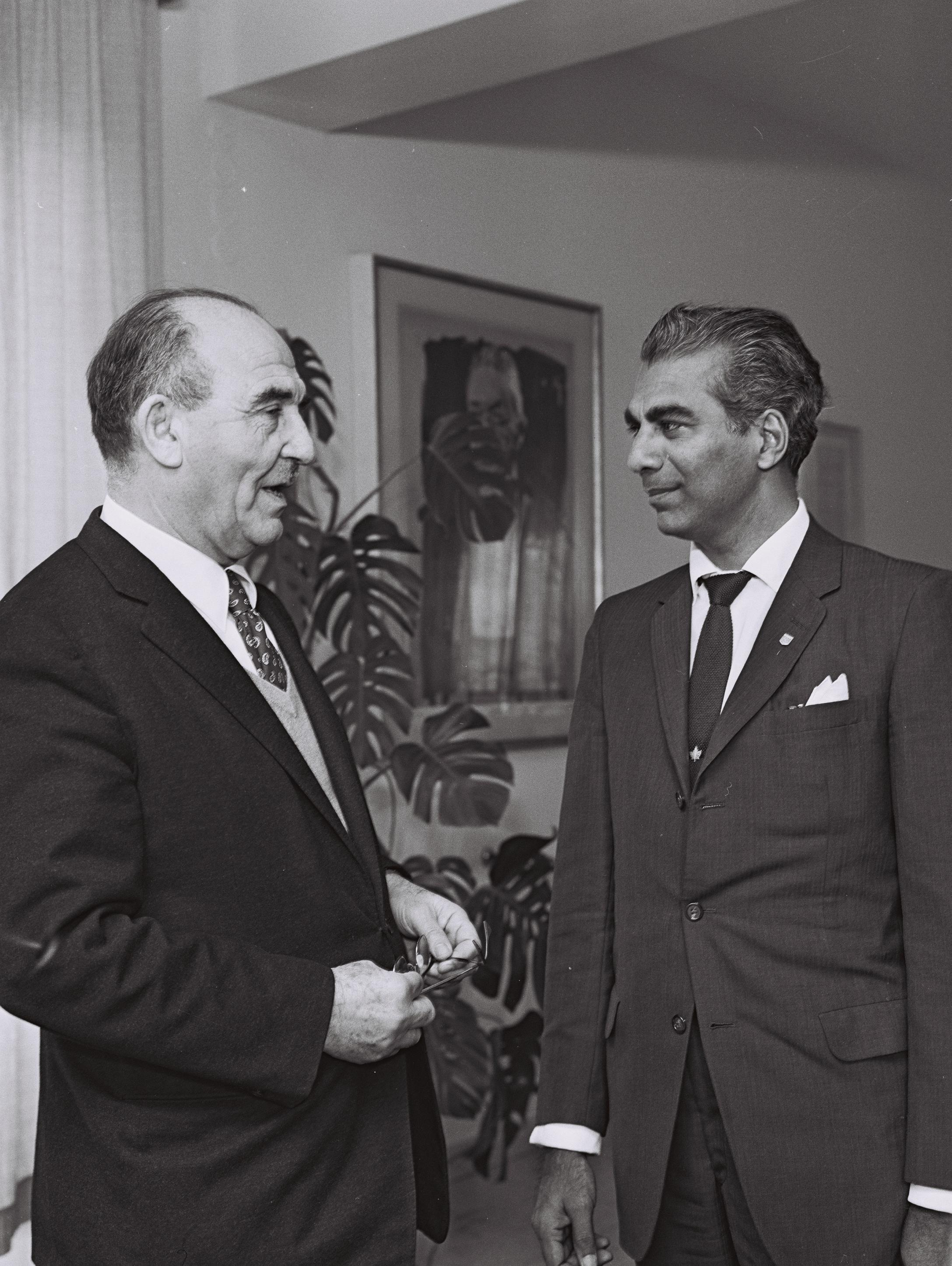 Prime min. of British Guyana, dr. Chedi Jagan (r),calling on acting prime min. Levy Eshkol in his office, Jerusalem.